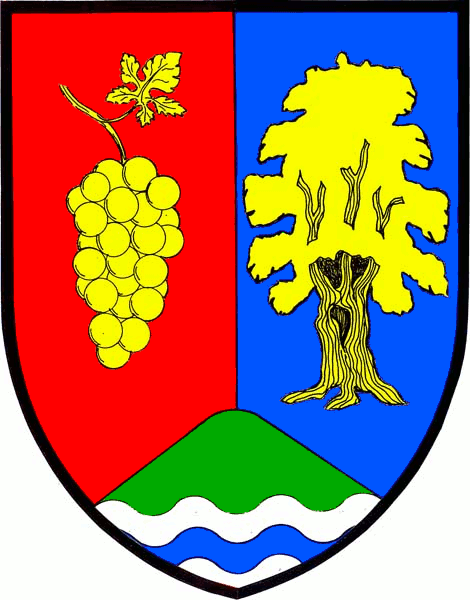 Municipal coat of arms of Převýšov village, Hradec Králové District, Czech Republic.